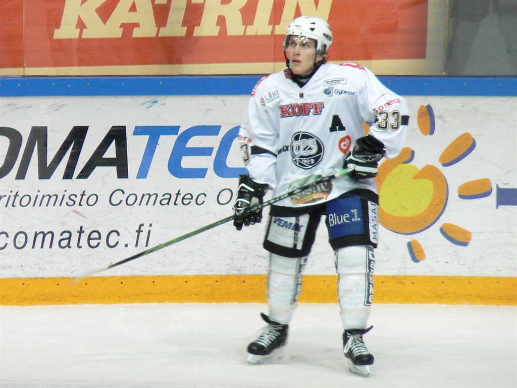 American ice hockey defenseman Lee Sweatt playing for TPS Turku in January 2008, in a game at Ilves Tampere.